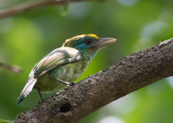 Megalaima flavifrons at Bdhinagala